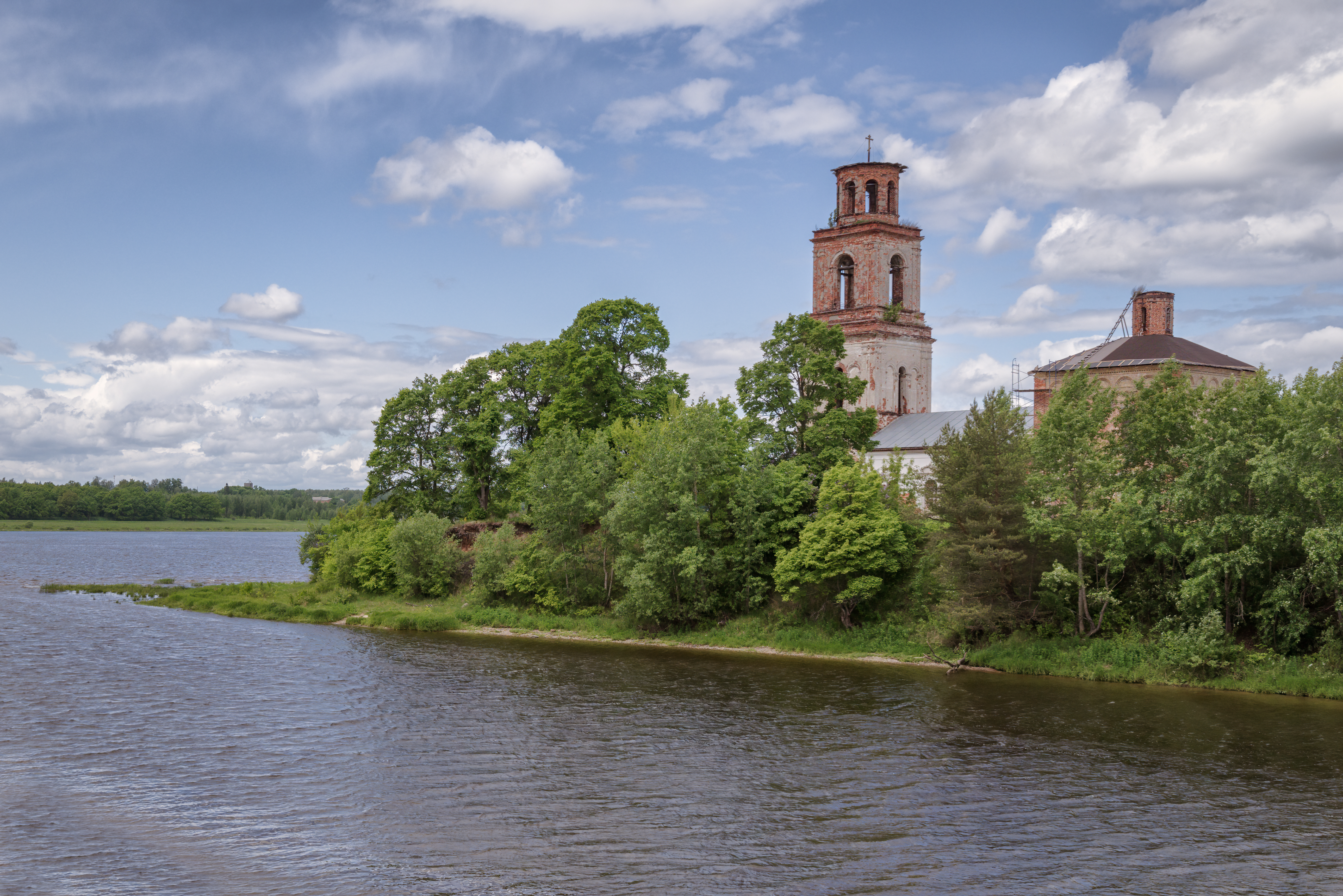 A church of Icon of Our Lady of the Smolensk in Ustye settlement seen from south-east to north-west. Yaroslavl Region, Russian Federation. This image is related to the protected area of Russia number 7610487